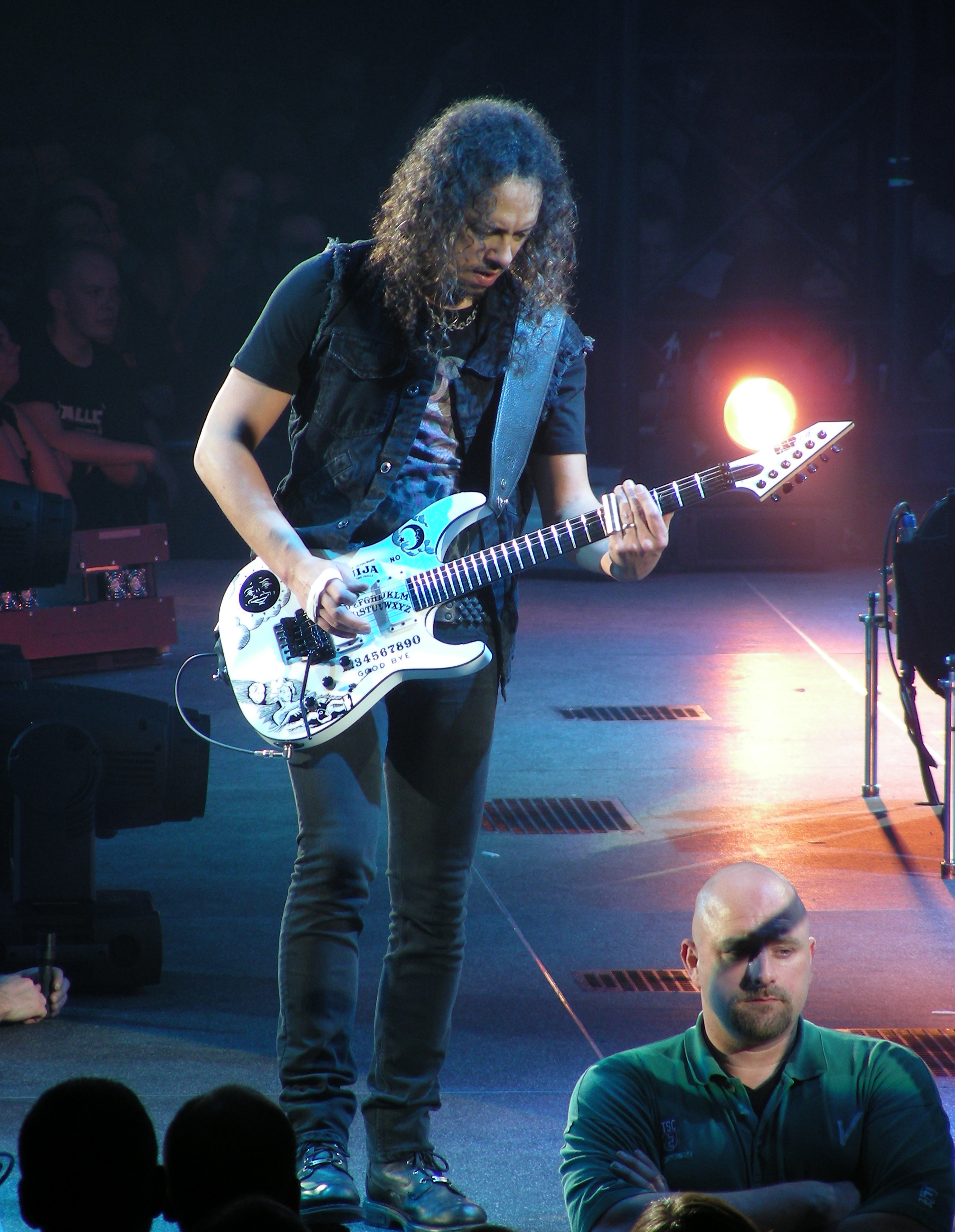 Kirk Hammett at Metallica concert on 2009-03-30 (Death Magnetic Tour, Ahoy Rotterdam)